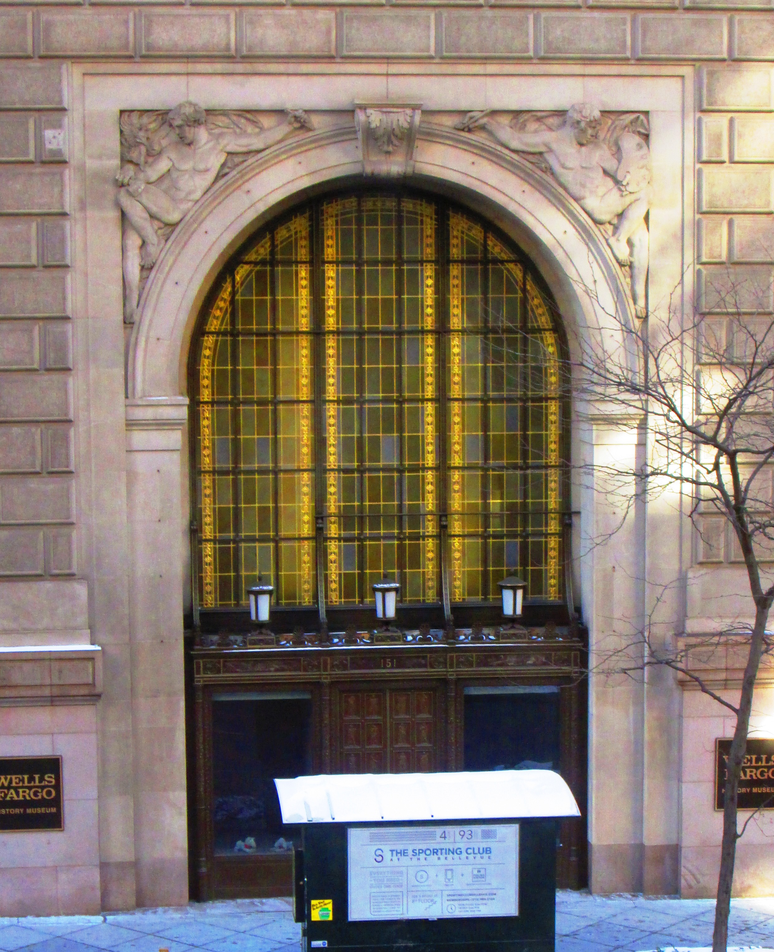 The Wells Fargo Building, originally the Fidelity-Philadelphia Trust Company Building, is a skyscraper located at 123-151 South Broad Street in Center City, Philadelphia. It was built in 1927-28 and was designed in the Beaux-Arts style by the architectural firm Simon & Simon.